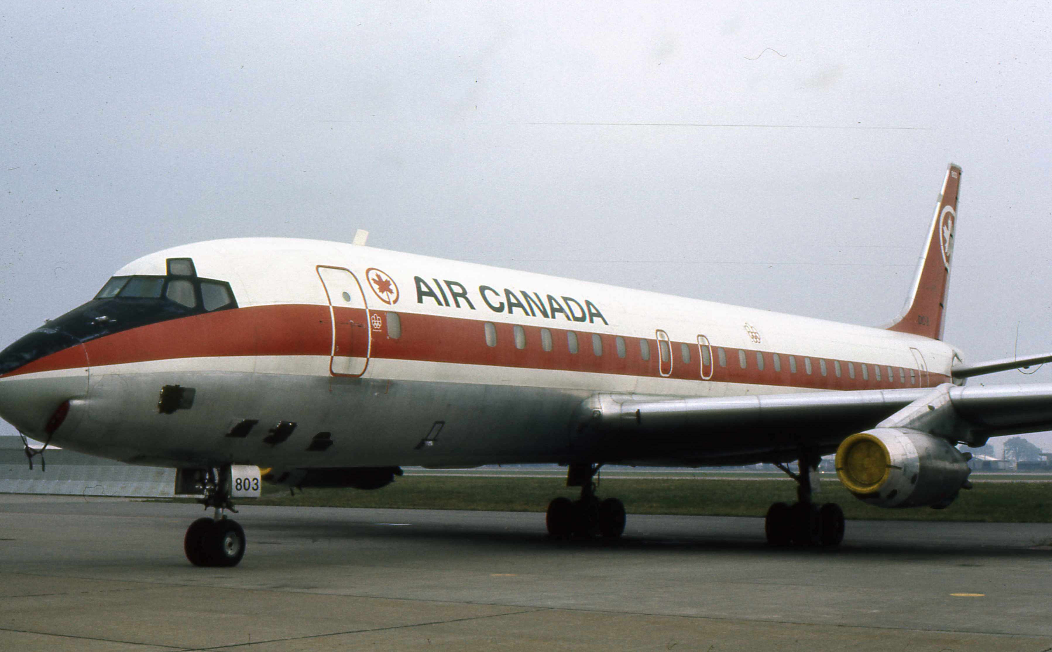 Canada Air Canada Douglas DC-8-43 CF-TJC, c/n 45444/31, delivered to TCA Trans Canada Air Lines in 1960-03-27 converted to series 41. Transferred to Air Canada in June 1964 with fin number 803. Sold to IAL in July 1977 registered N72488 and leased to Dominicana. Broken up in Miami in March 1981. Here is taken at the maintenance base.